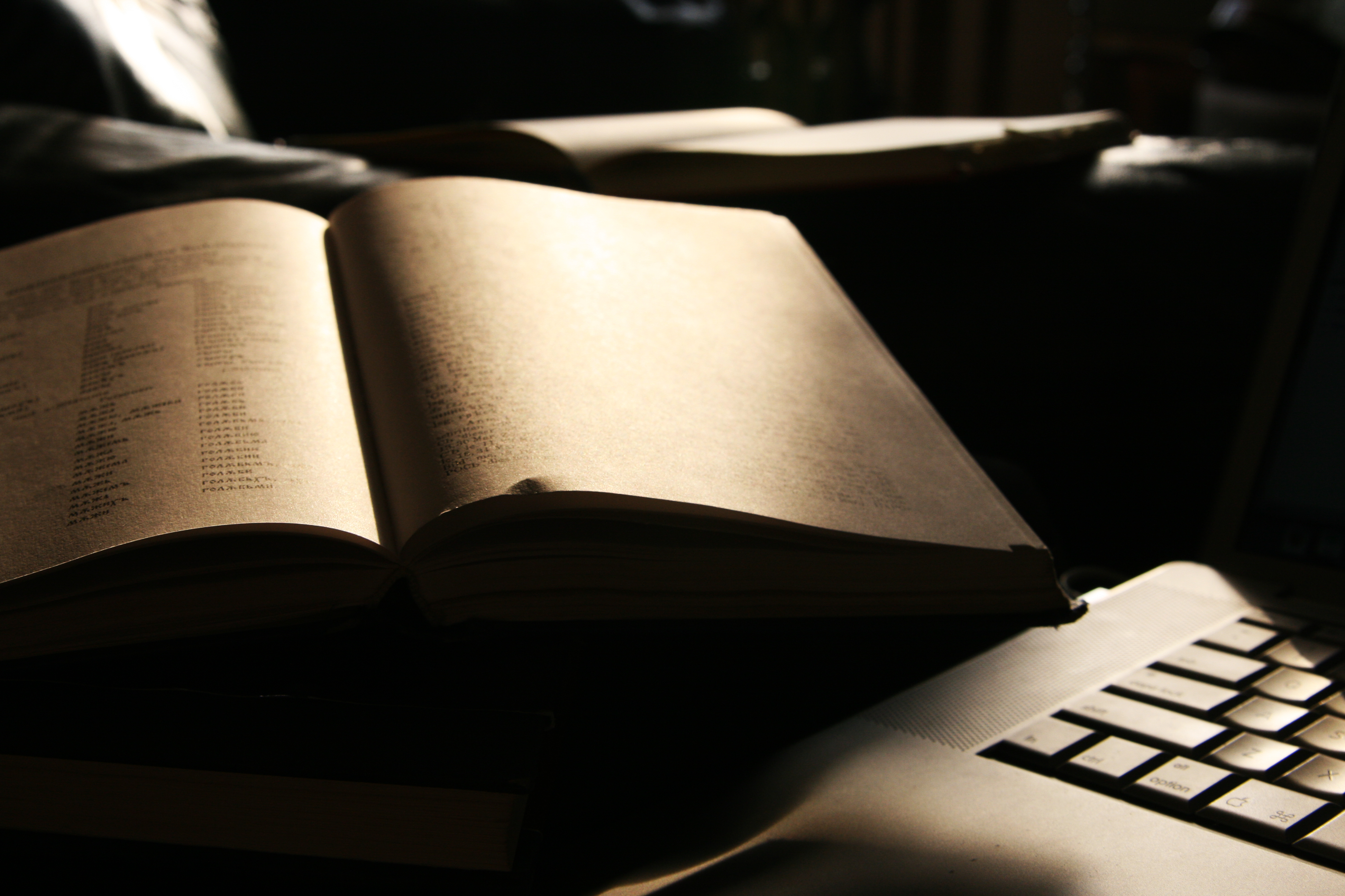 Book and notebook, sources of knowledge